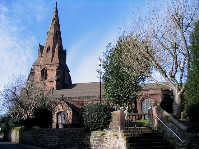 Parish church of St Mary the Blesséd Virgin, Eastham, Merseyside, seen from the south